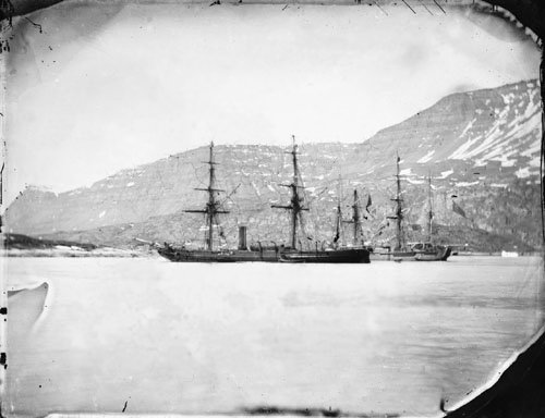 Retouched historic photo. Changes made: marks, speckles and cracking removed using clone stamp tool some areas of sea and sky blurred as clean mark removal was not always possible sea and sky areas bordering on land/ships blurred to remove some compression artefacts Original description: HMS 'Phoenix' (1832) and HMS 'Diligence' (1814) at anchor, Godhavn Reproduction ID: G04256 Maker: Captain Edward Augustus Inglefield Date: 18 June-5 July 1854 Materials: Wet collodion negative